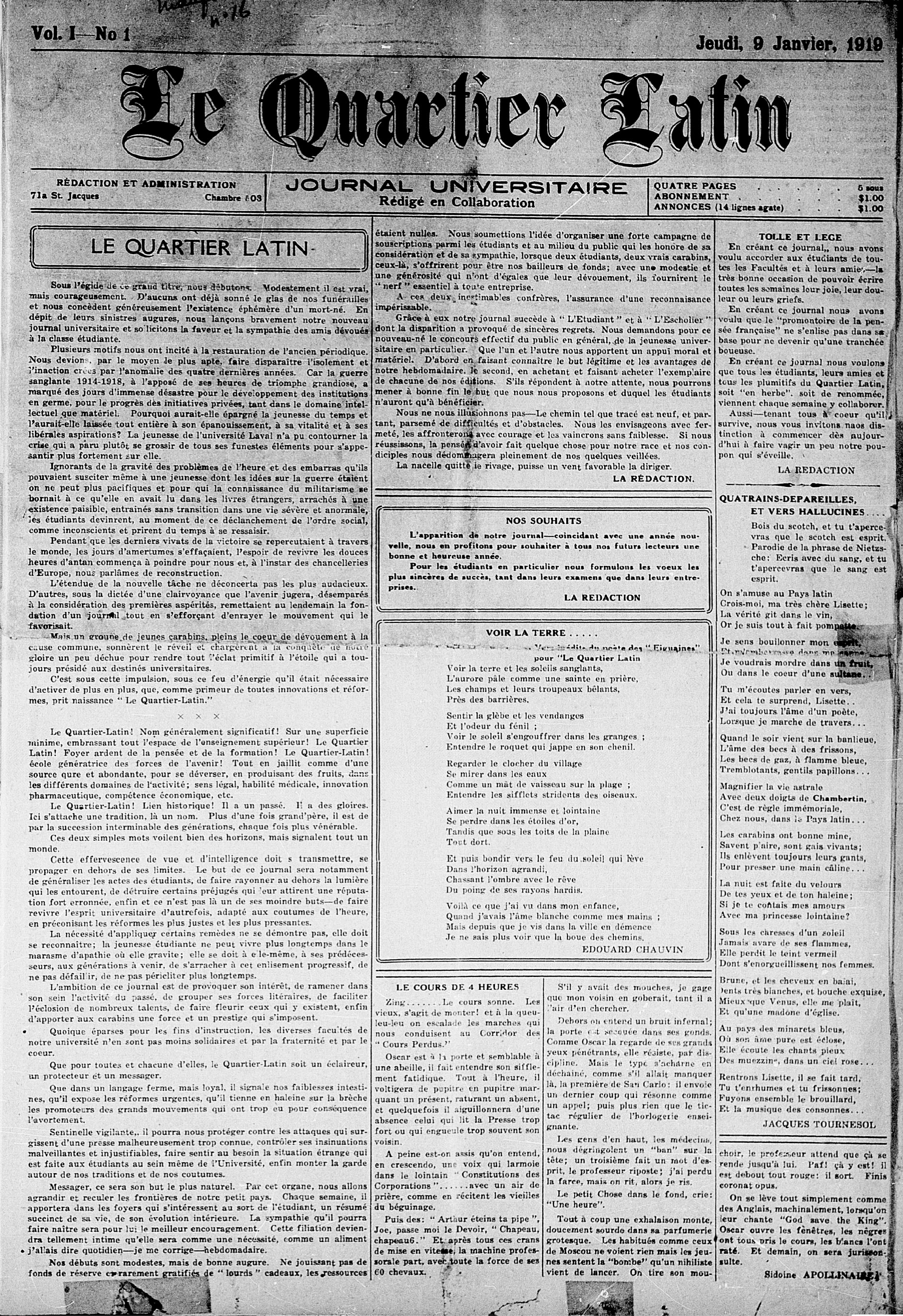 For documentary purposes the original description provided by BAnQ has been retained. Additional descriptive text may be added by Wikimedians with the wiki description = parameter, but please do not modify the other fields.